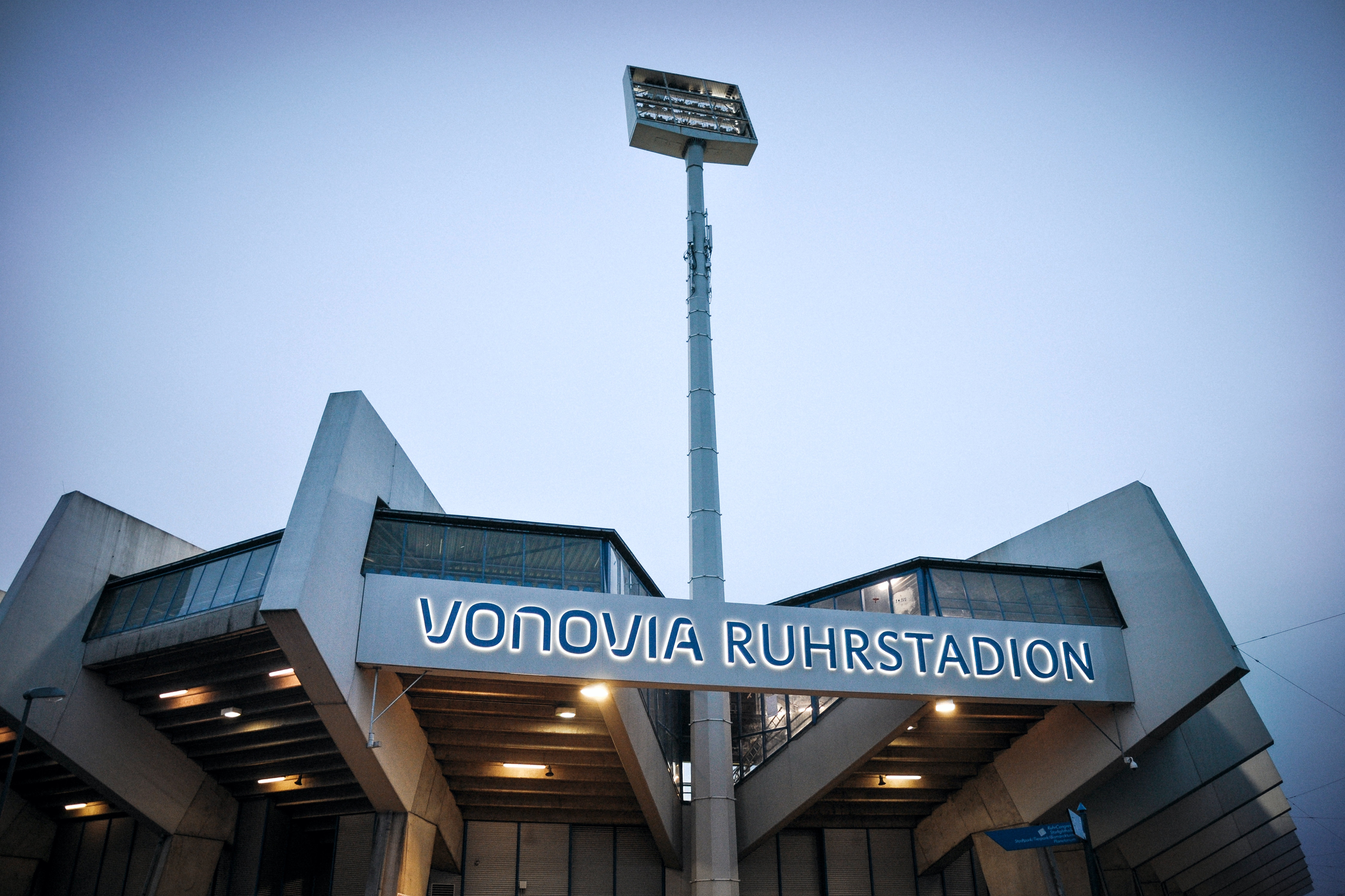 Ruhrstadion, football stadium of the VfL Bochum